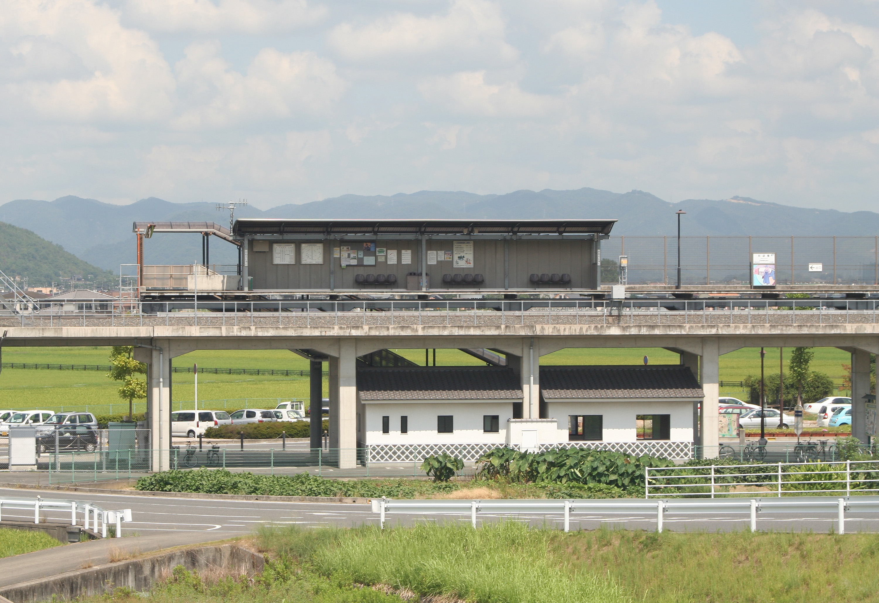 Ibara Railway Kawabejyuku sta entire circumstances